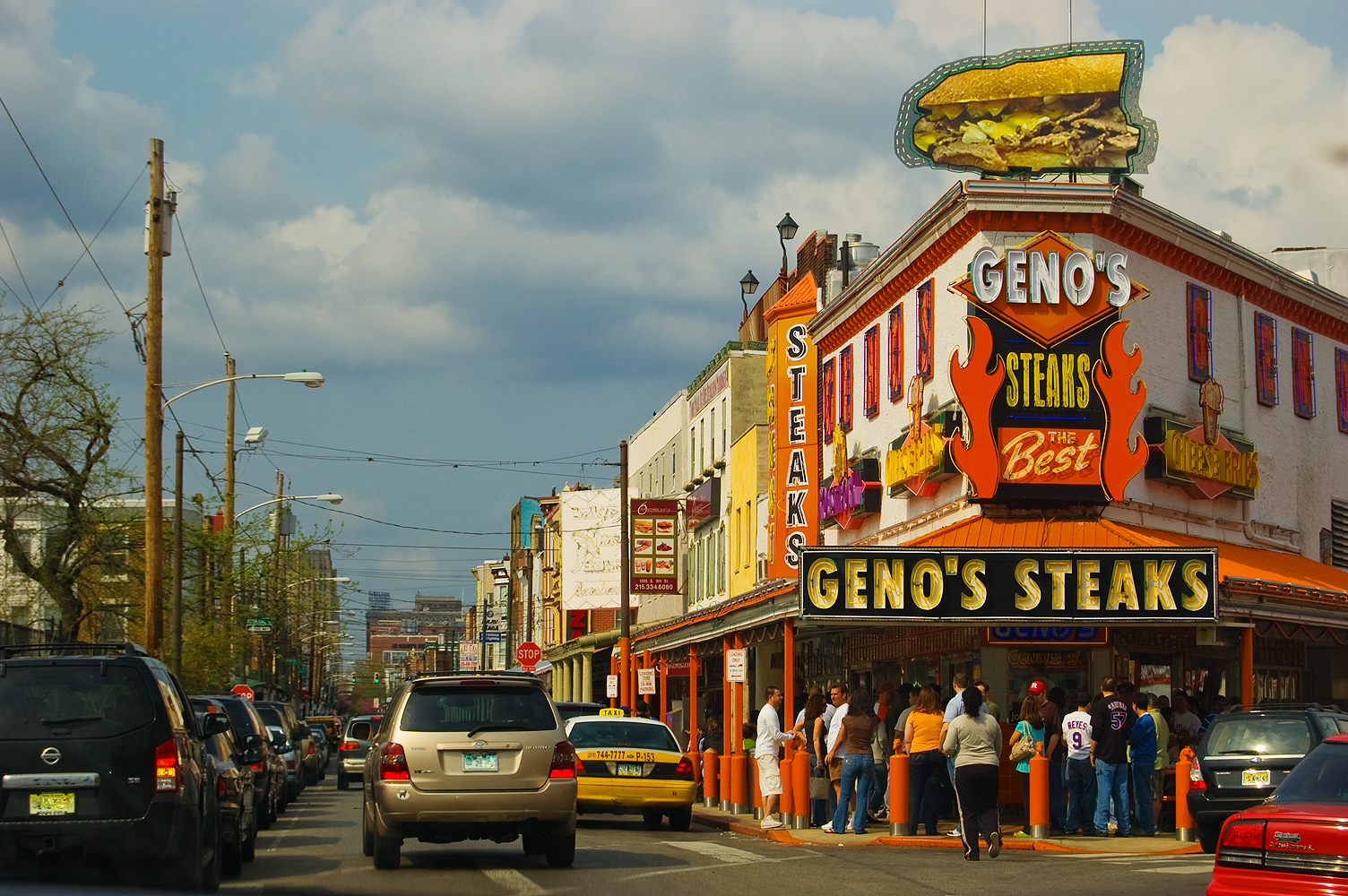 Geno's Steaks in Philadephia